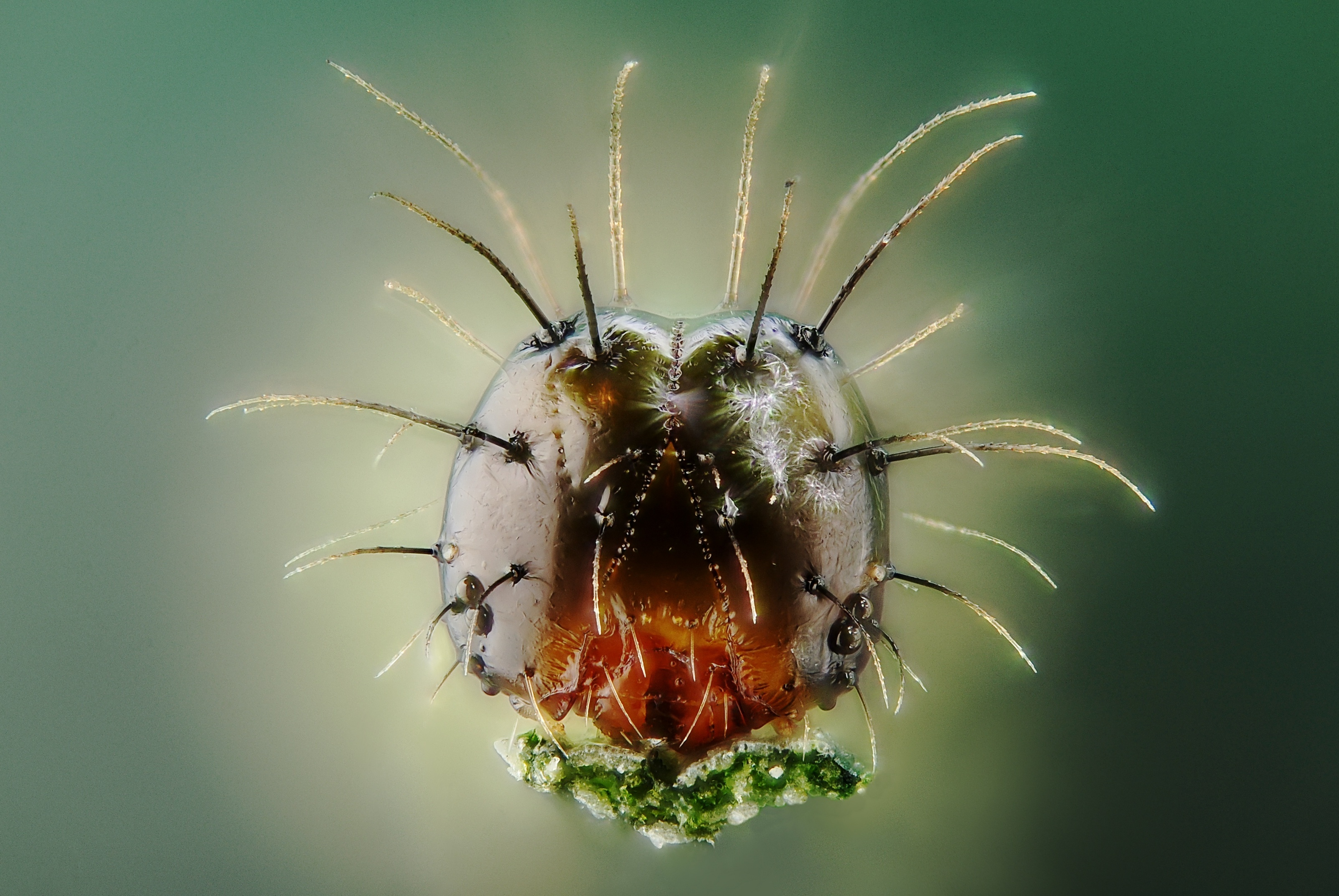 Frontal view of the head of a very young (first instar) caterpillar of the butterfly Pararge aegeria. Scale : Head capsel maximal width= 0.7 mm Technical settings : - focus stack of 104 images - microscope objective (Nikon achromatic 10x 160/0.25) on bellow (70 mm extension)